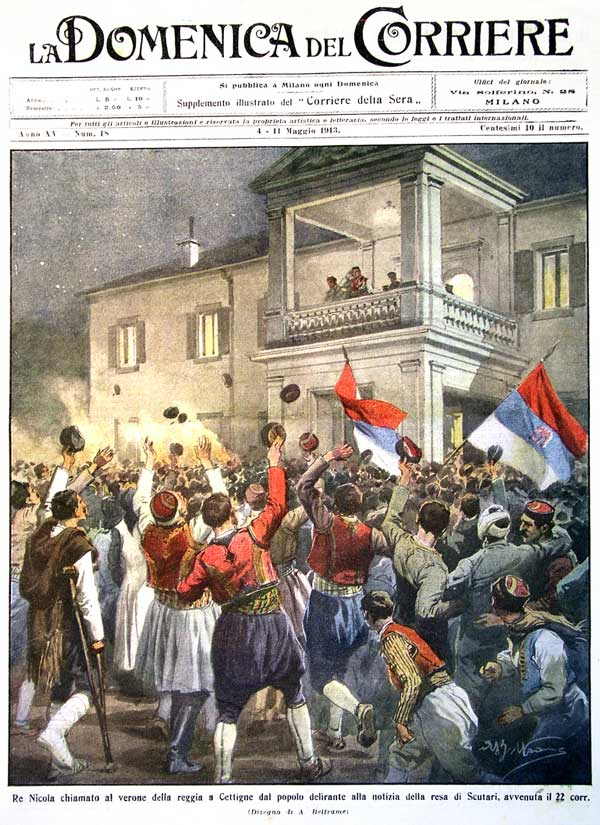 Illustrated supplement of Italian daily Corriere della Sera, La Domenica del Corriere from 4-11 May 1913, shows King Nikola refereeing to the Montenegrin army in Cetinje that Turks have yield town of Scutari to the Montenegrins. After Turks surrendered Scutari to the Montenegrins on 22 April 1913, European powers insisted the town had to receive international control and Montenegrin troops were evacuated on 14 May.